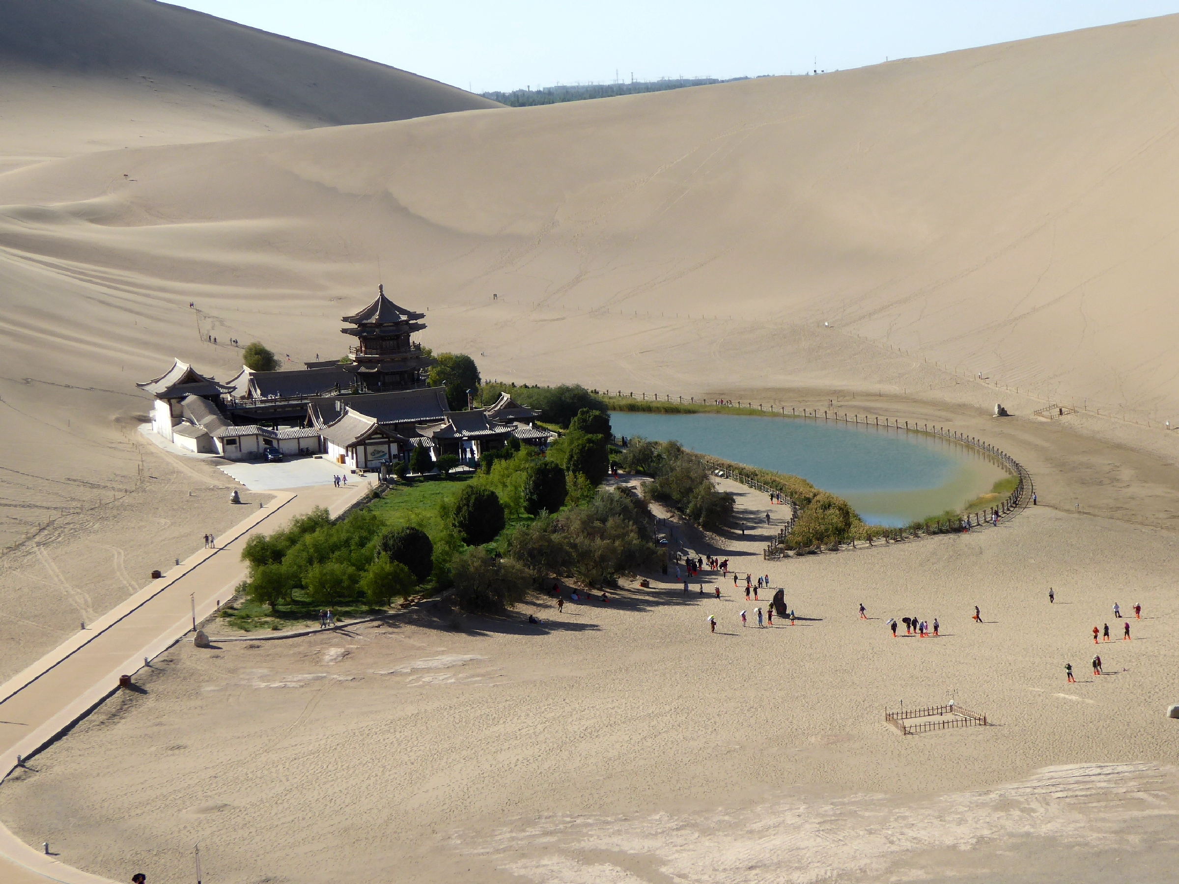 Crescent Moon Spring Yueyaquan Mingshashan Dunhuang Gansu China 敦煌 鸣沙山 月牙泉